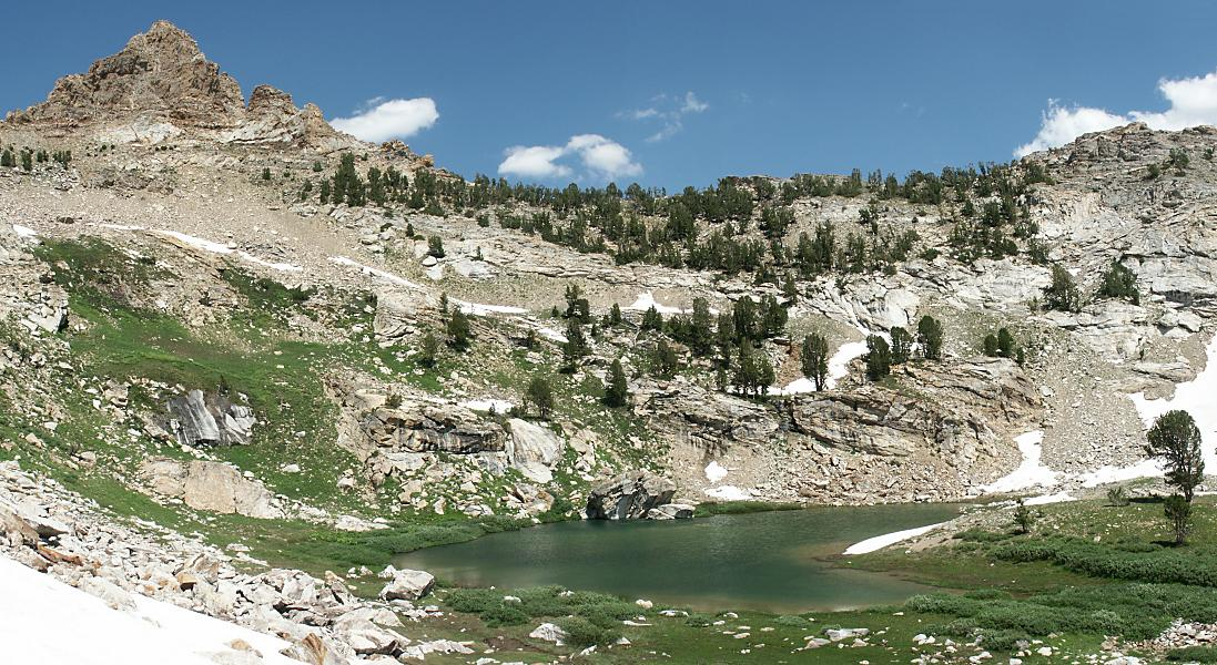 Snow Lake in the Ruby Mountains of Nevada, looking northeast. At the upper left is Snow Lake Peak.